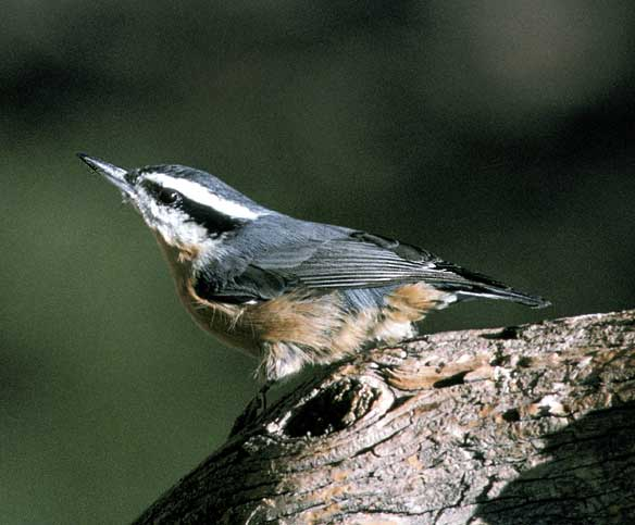 Red-breasted Nuthatch (Sitta canadensis), Deschutes National Forest